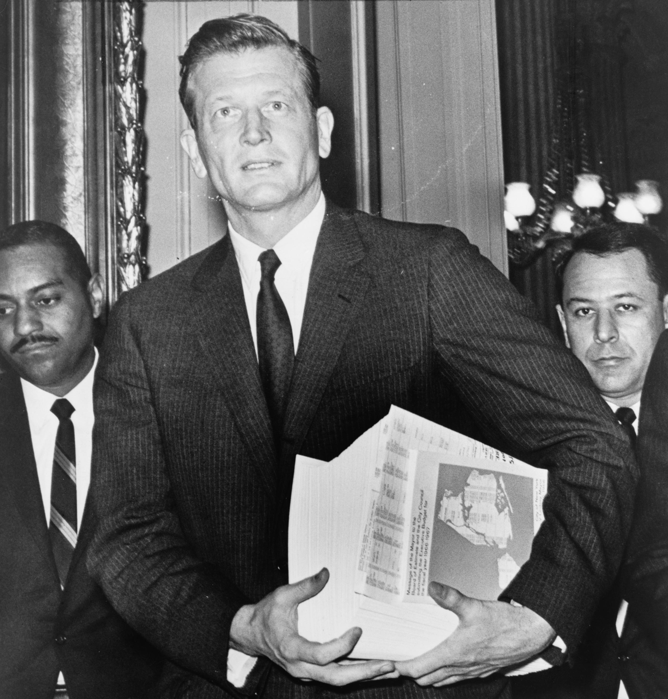 New York Mayor Lindsay carries in his budget